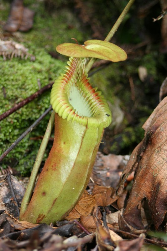 Lower pitcher of Nepenthes × harryana growing along the Mount Kinabalu summit trail